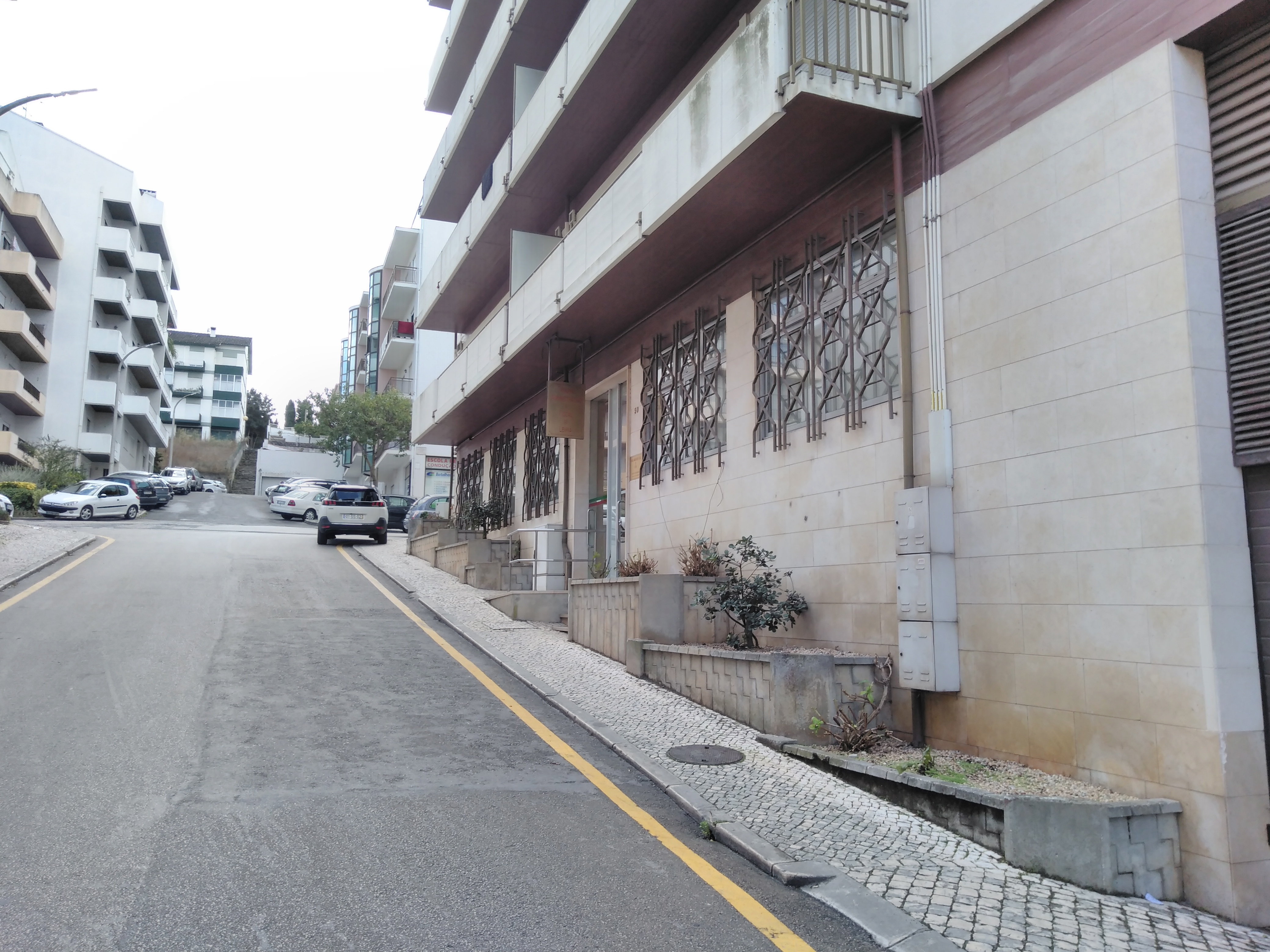 Administrative and Fiscal Court of Leiria